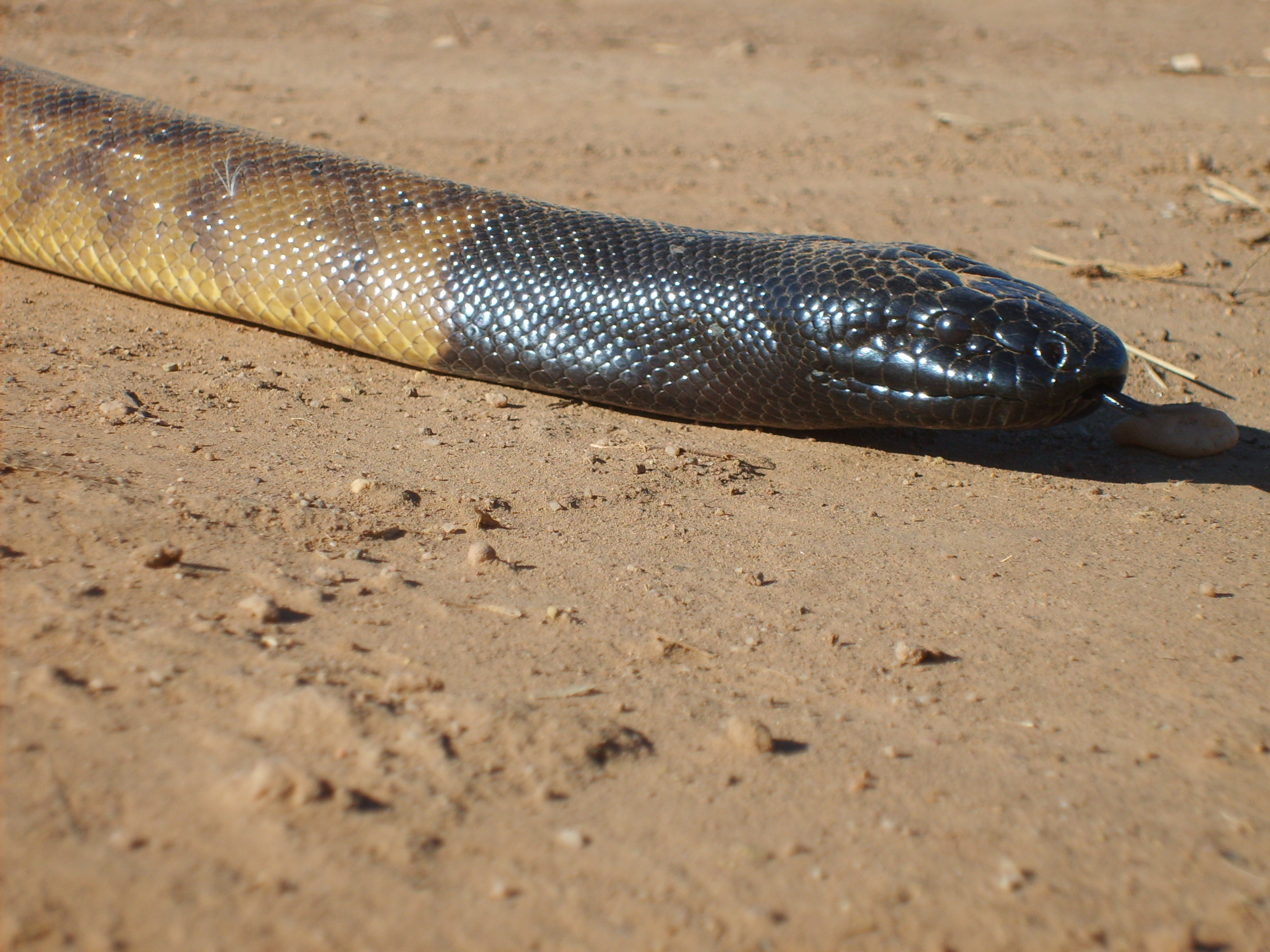 Black-headed python (Aspidites melanocephalus) crossing the road near Carnarvan Gorge, Queensland Australia, April 2007